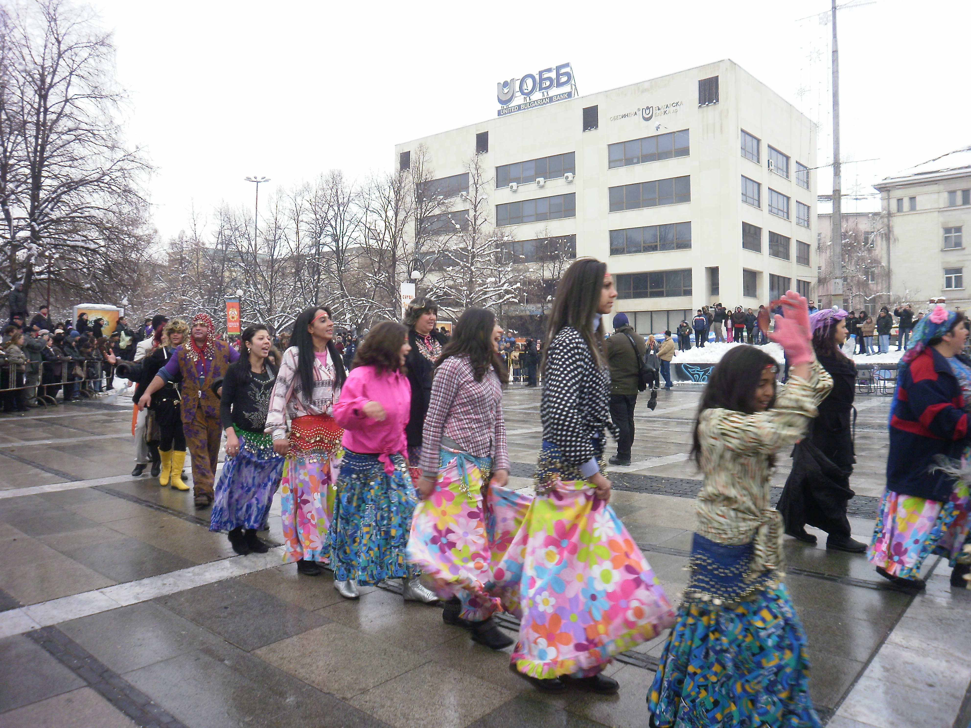 Kukeri from Yabalkovo, Kyustendil Province - XXI International festival of masquerade games "Surva", Pernik 2012.